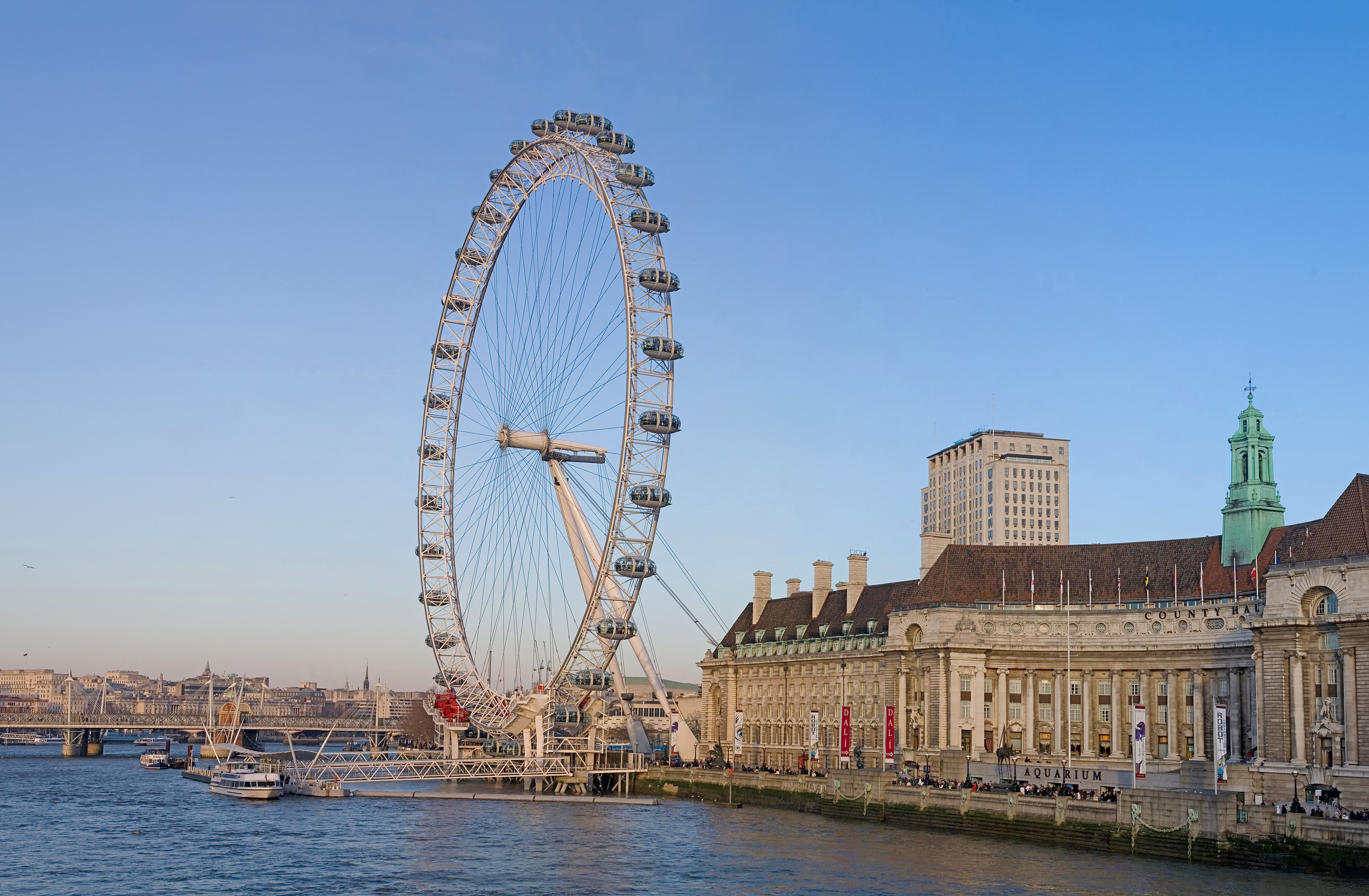 This is a panorama of 4 segments taken with a Canon 5D and 24-105mm f/4L IS lens by myself.